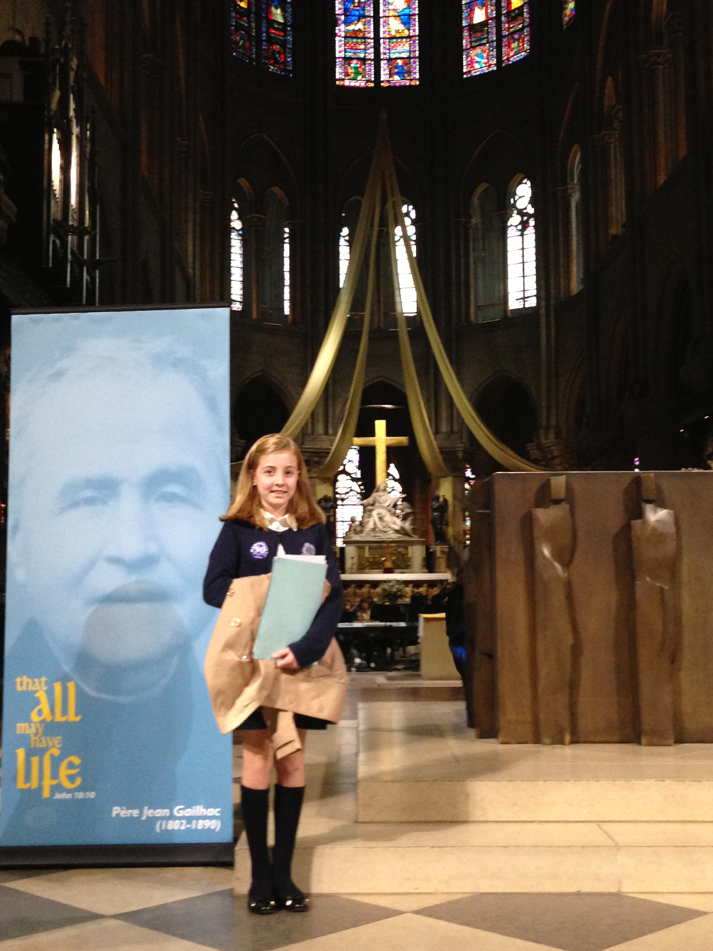 Marymount International School, Paris's 90th Anniversary celebrated in the Notre Dame Cathedral. The student in the picture: Madeleine Cox, age (at the time): 11, grade: 5th. She sang solo, "Shepard Me O God" to thousands of people.